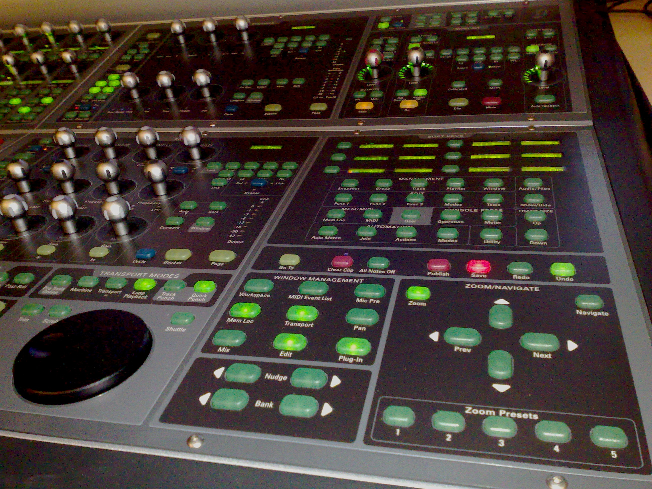 Digidesign ICON D-Command (right)